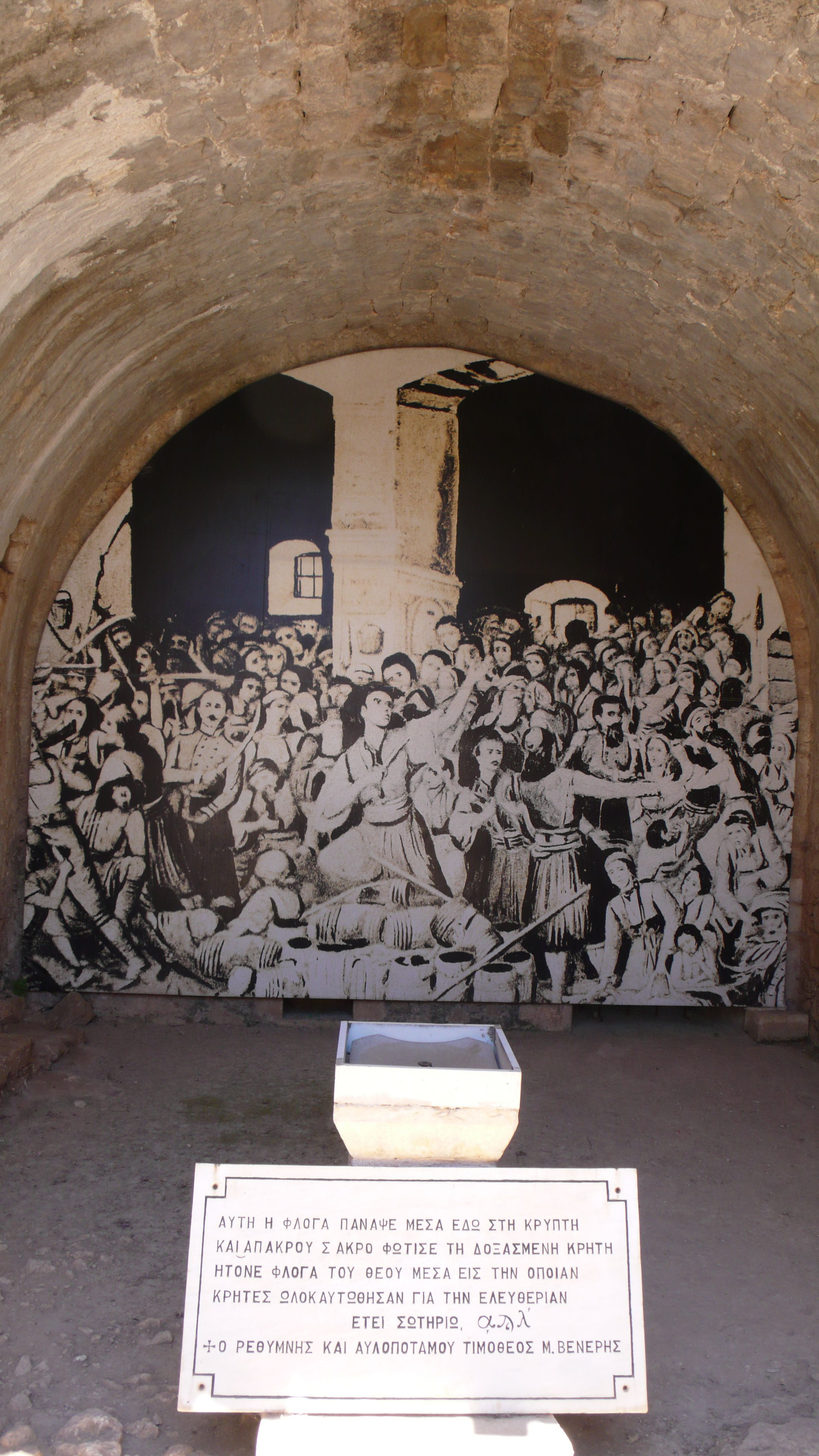 Lithography, Powder Magazine, Arkadi Monastery, Crete